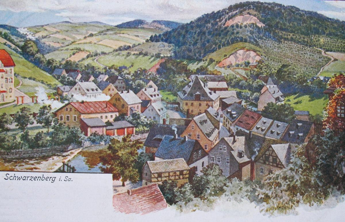 Schwarzenberg: Vorstadt with Herrenmühle and Rockelmann